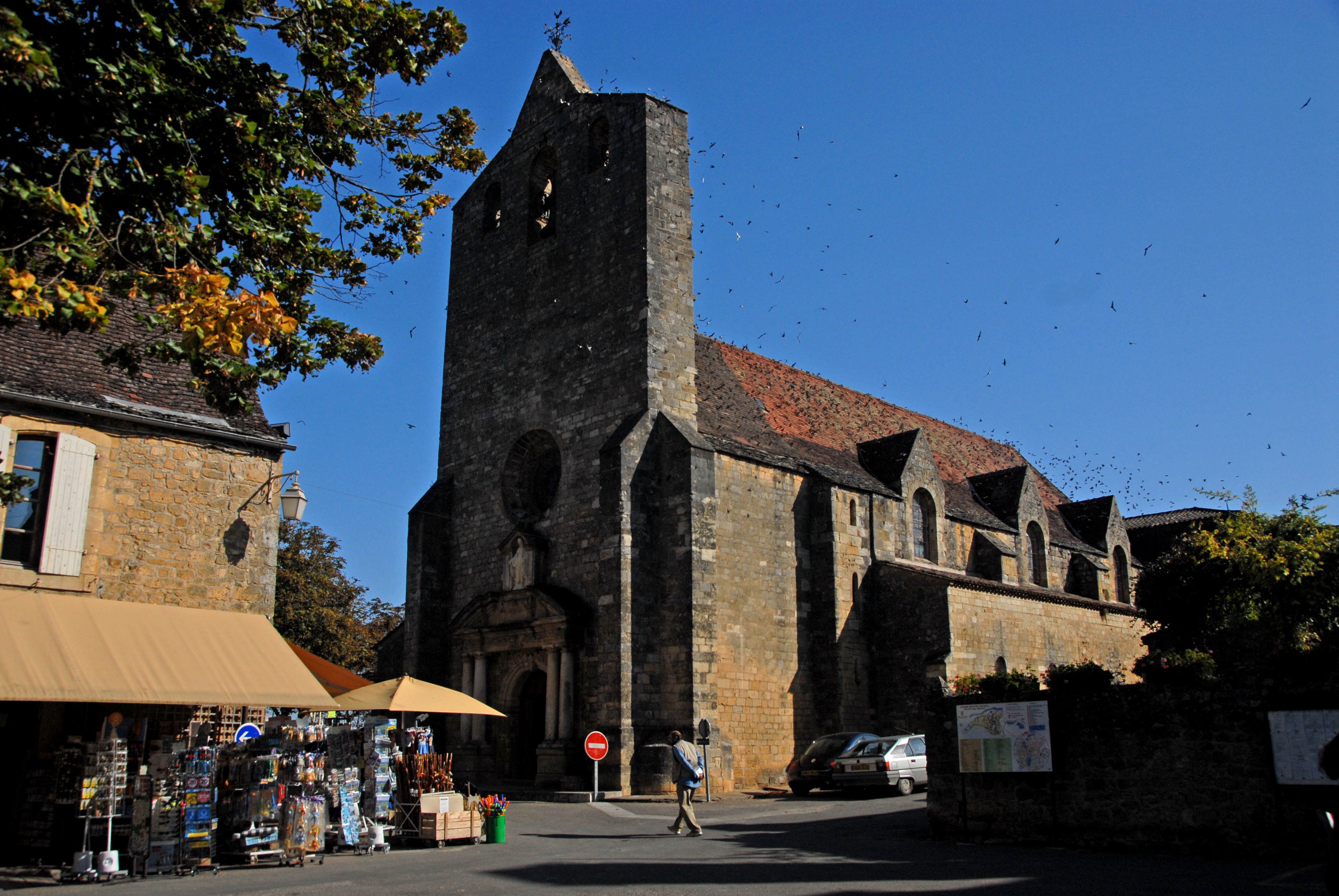 Domme, church in the north-western corner of the market square